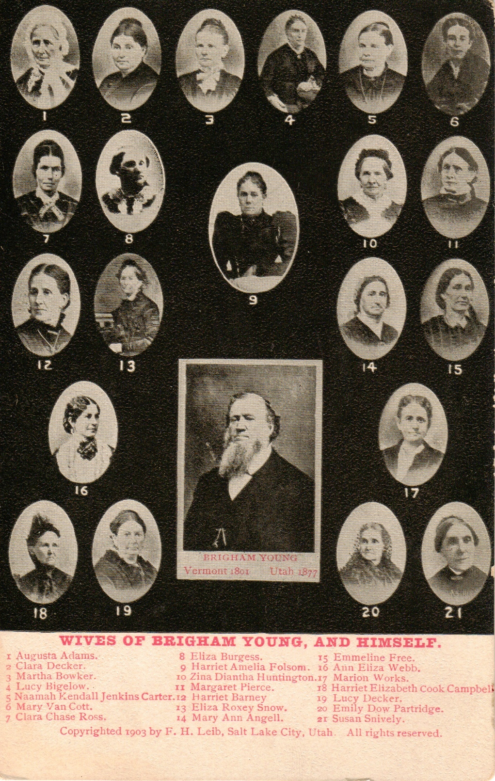 This image was scanned from a rare postcard published in 1903. It shows Brigham Young along with 21 of his wives. There is a number next to the image of each wife which correspond to a legend at the bottom of the image.